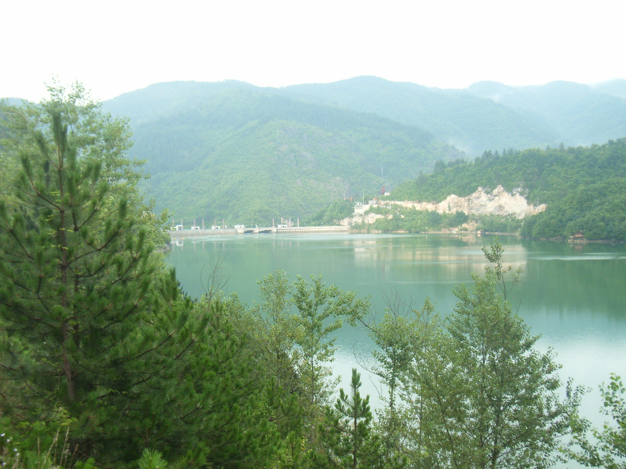 Višegrad in Bosnia and Herzegovina, Hydro power station at the Drina reservoir